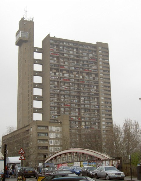 Trellick Tower by Ernö Goldfinger, from Golborne Road. An example of Brutalist architecture. Category:Grade II* listed buildings Category:Ernő Goldfinger buildings